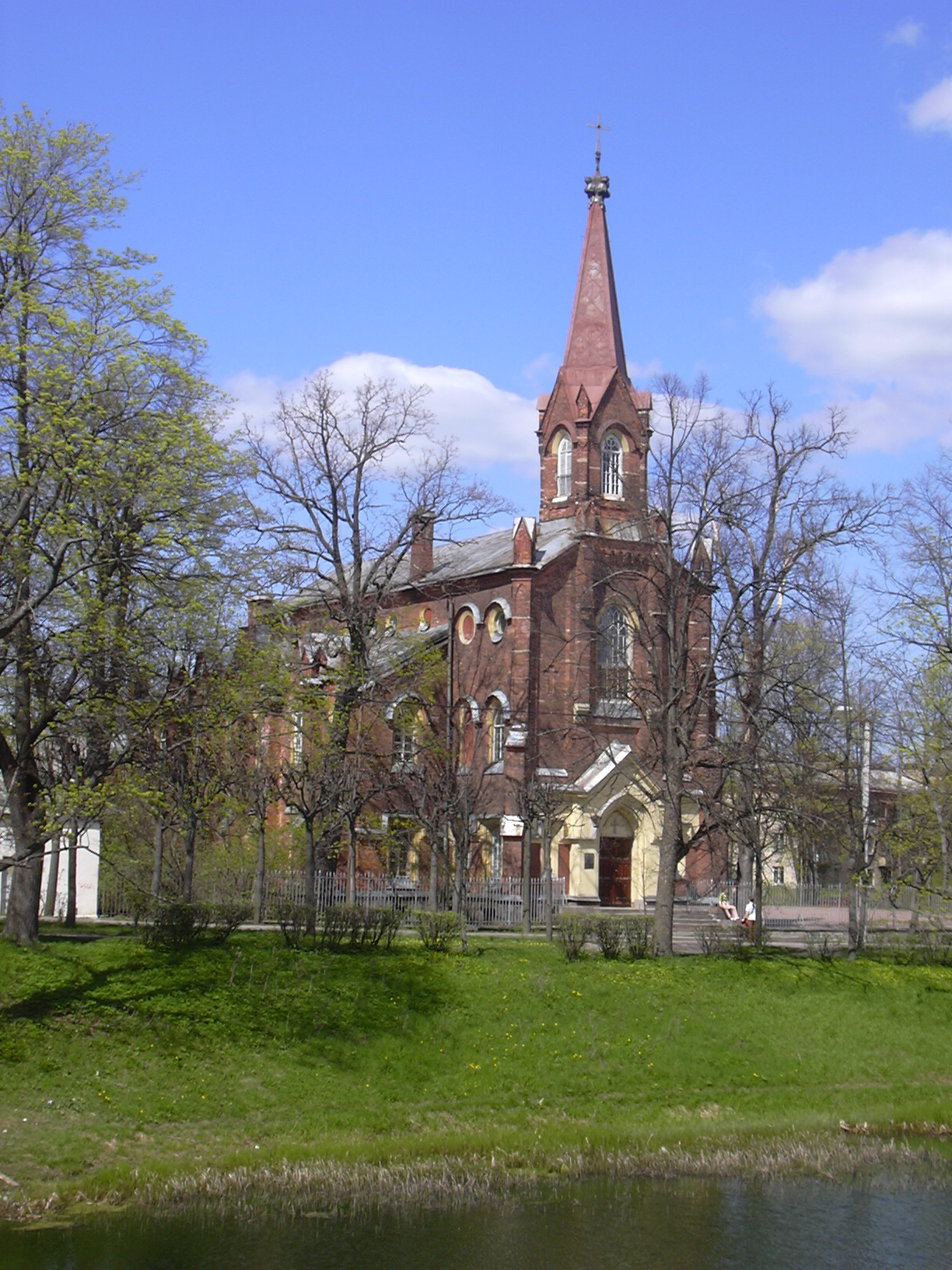 Lutheran church in neo-gothic style (1865) St.Petersburg. Pushkin